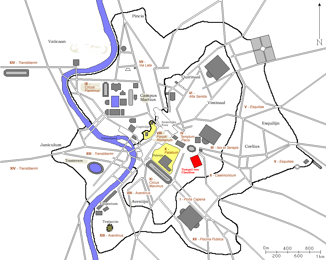 Temple of Claudius on a map of ancient Rome around 300 AD